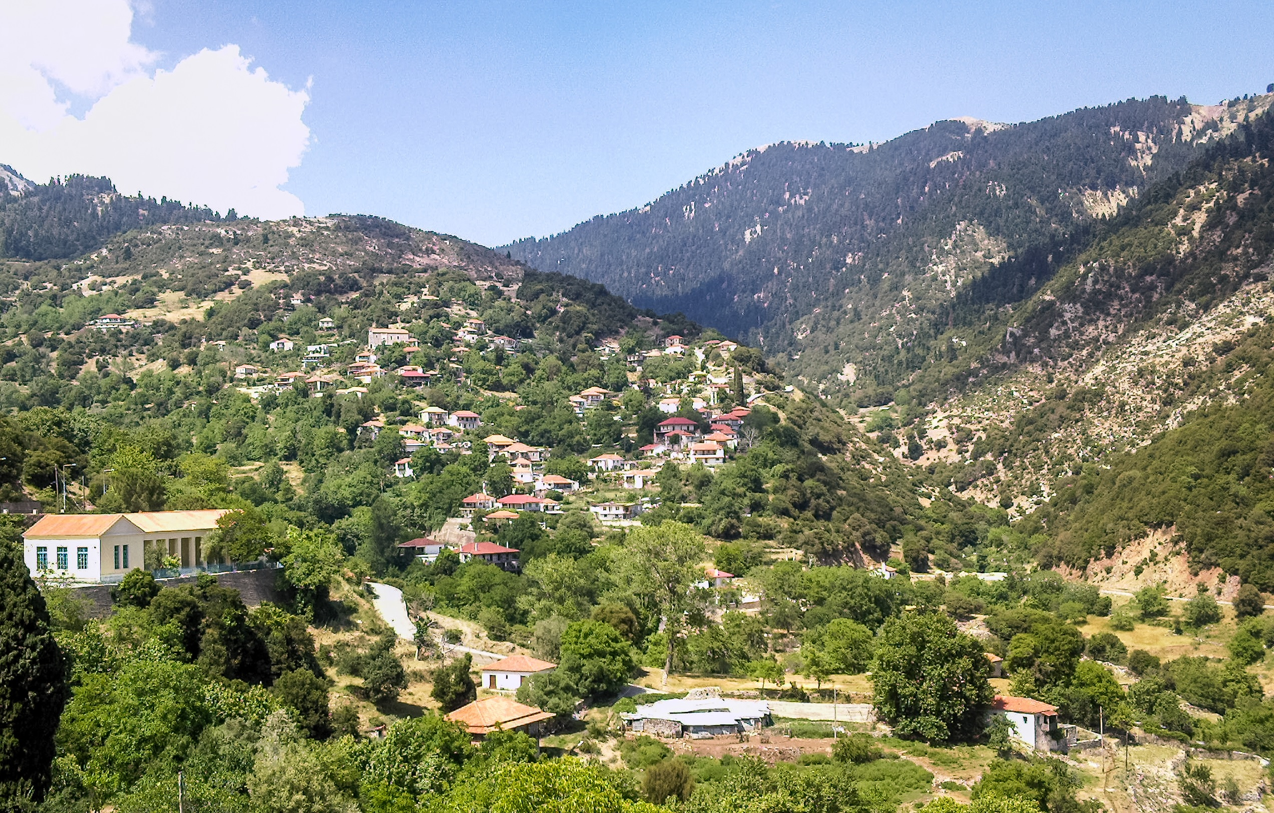 Lampeia (Divri) village, Ileia, Greece. Partial view of the village.